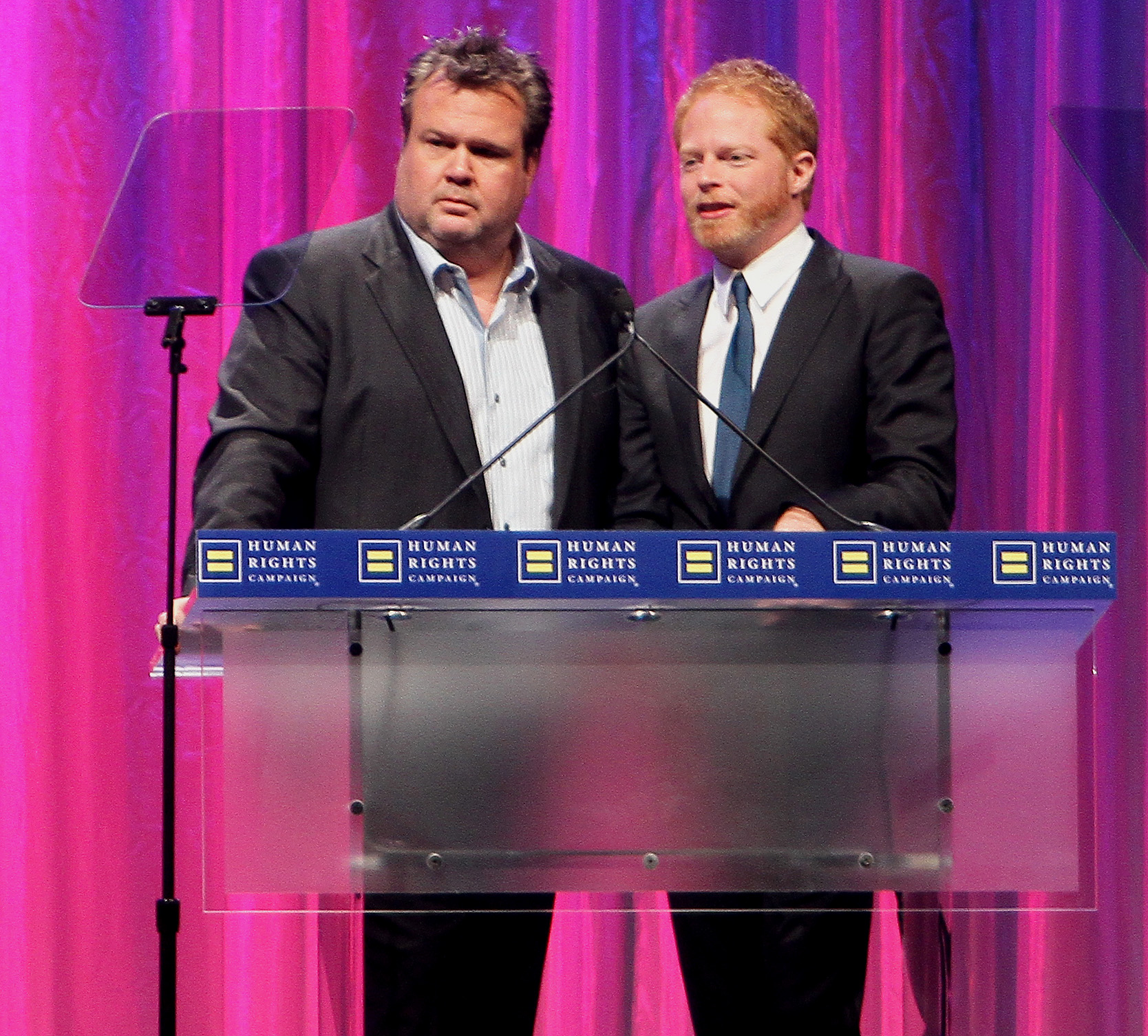 Jesse Tyler Ferguson and Eric Stonestreet from the show "Modern Family" at the 2010 HRC National Dinner